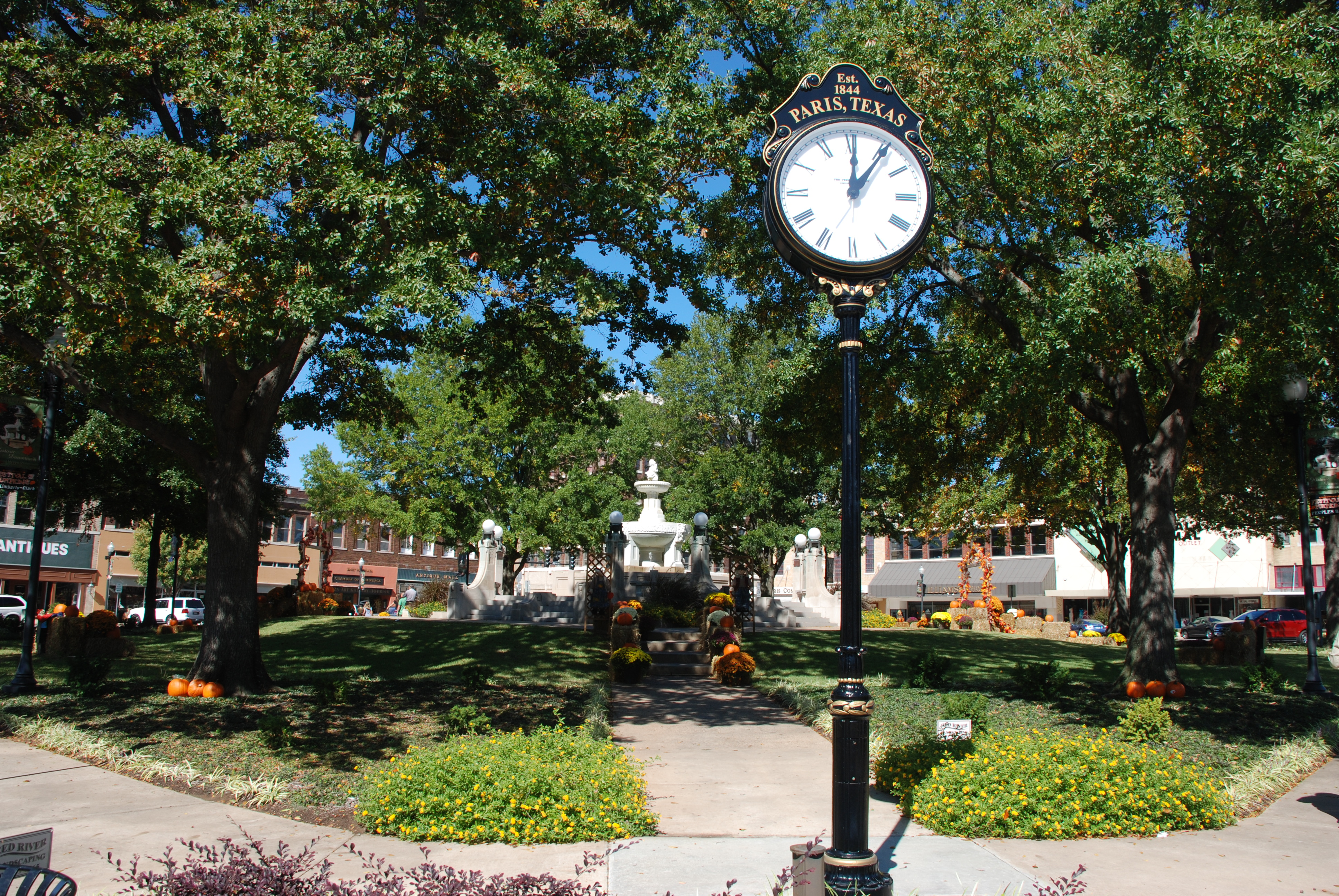 The Plaza and Culbertson Fountain, Paris (Texas, USA)